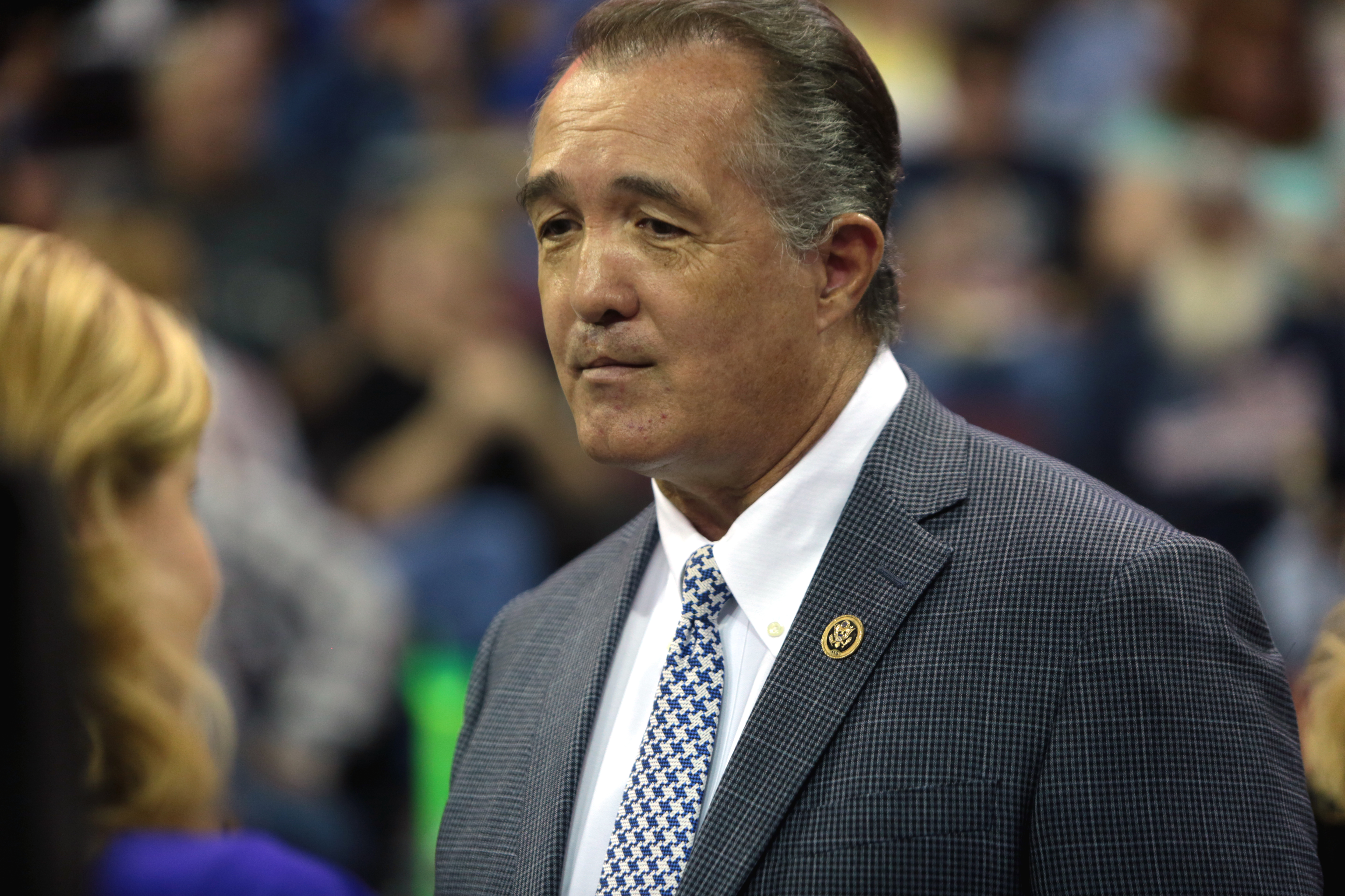 U.S. Congressman Trent Franks speaking with the media at a campaign rally for Donald Trump at the Prescott Valley Event Center in Prescott Valley, Arizona.